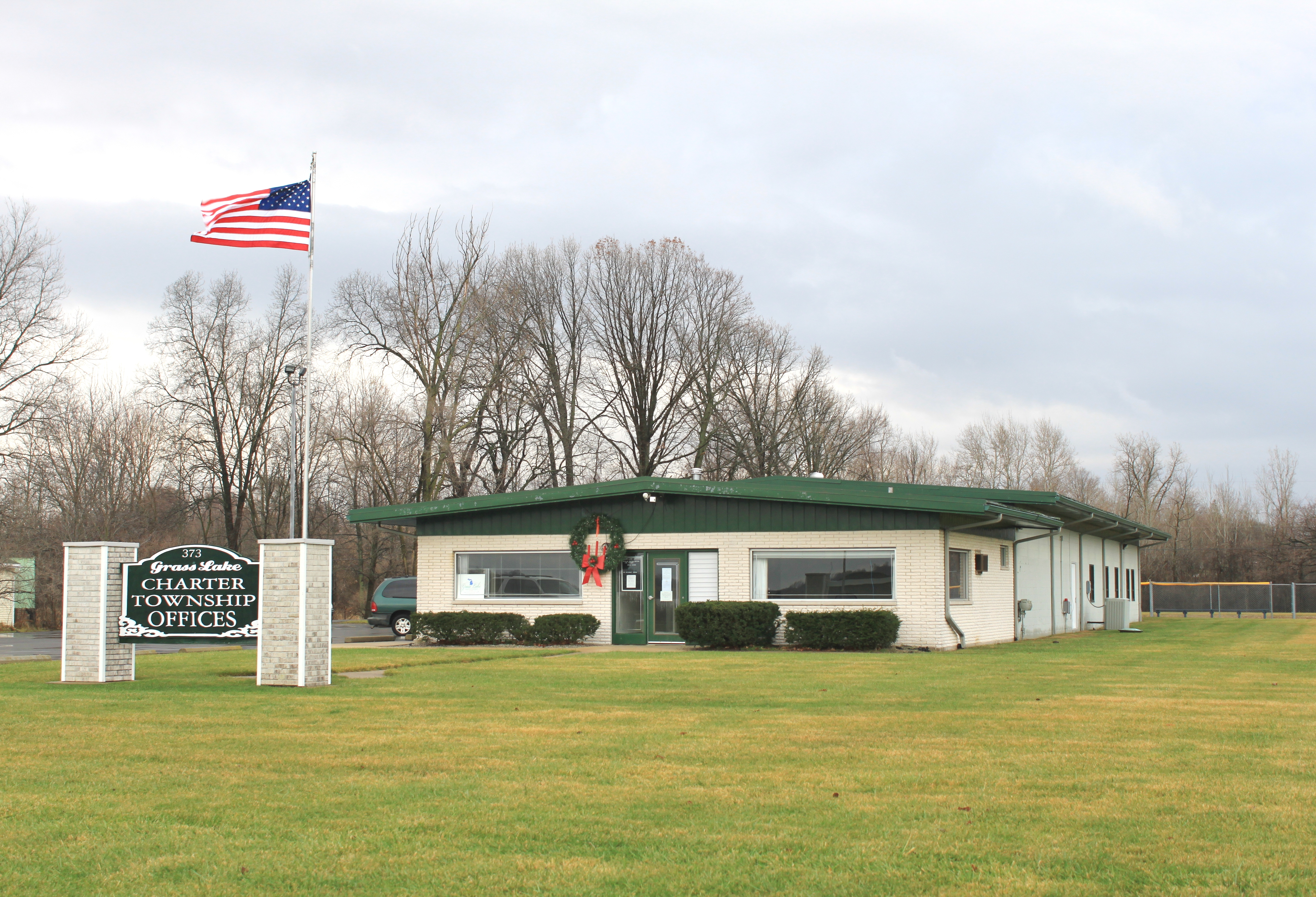 Grass Lake Charter Township Offices, 373 Lakeside Drive, Grass Lake, Michigan.